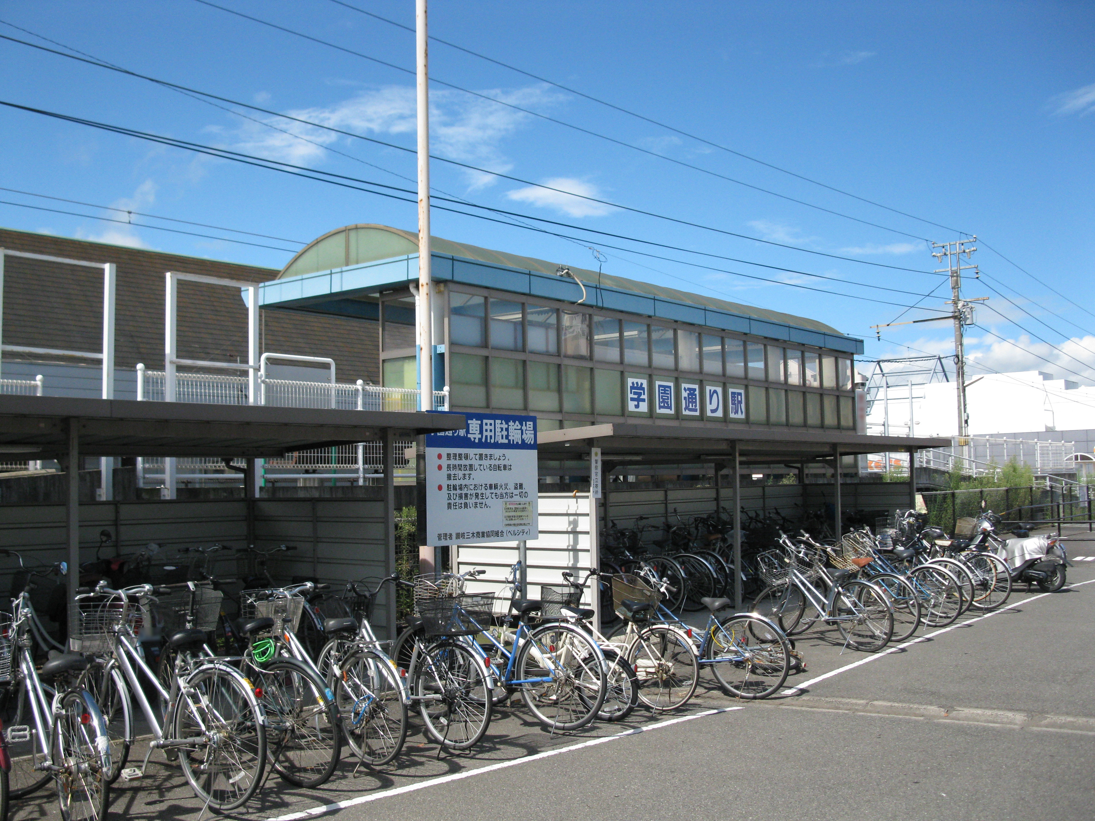 Gakuen-dōri Station outside (Takamatsu-Kotohira Electric Railroad(Kotoden) Nagao Line)